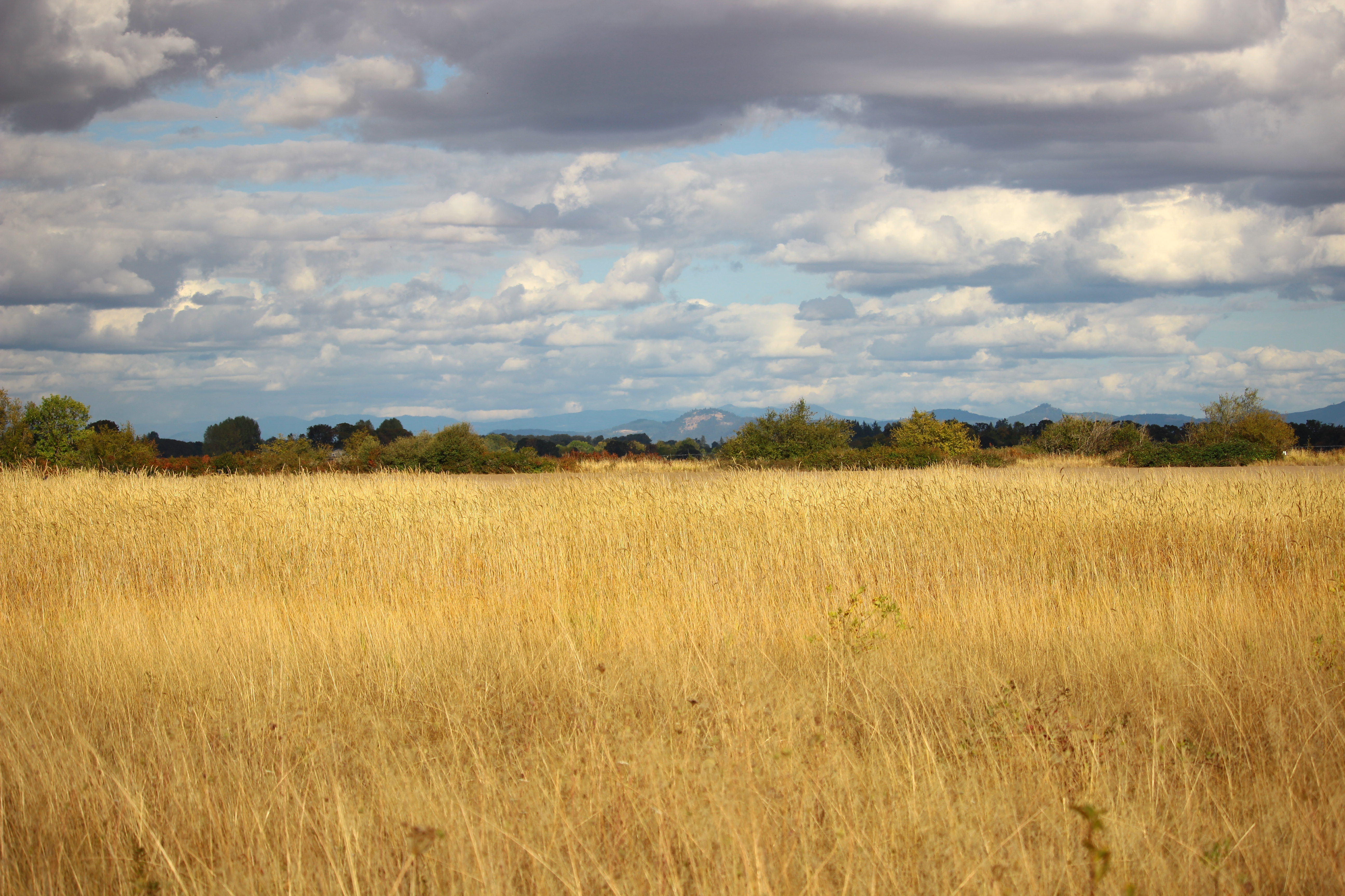 A photograph of the Finley wildlife refuge, located outside of Corvallis Oregon.